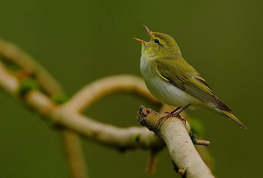 Image taken by Loch Lomondside